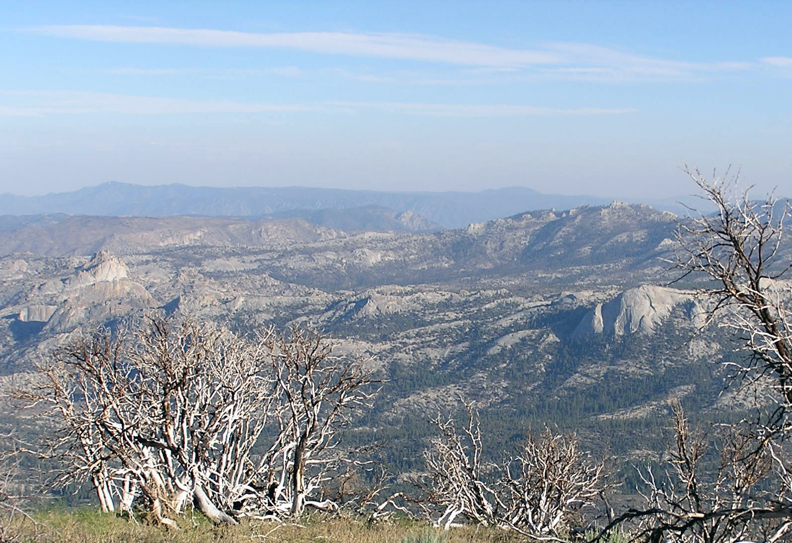 Domeland Wilderness from Bald Mountain, summer 2007. Tulare County, California, Sierra Nevada.